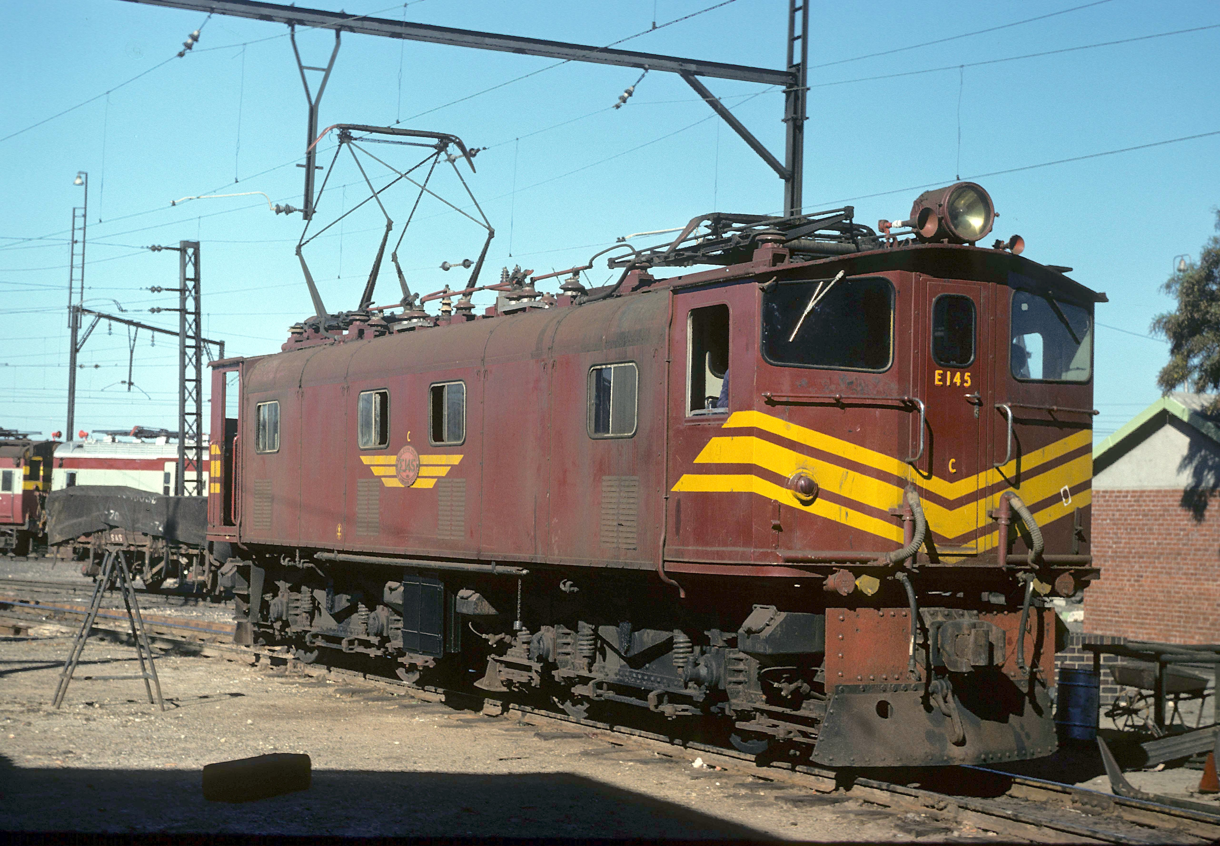 Class 1ES E145 (ex Class 1E, Series 5) Builder's Number: SLM 3661/1938 Location: Salt River, Cape Town